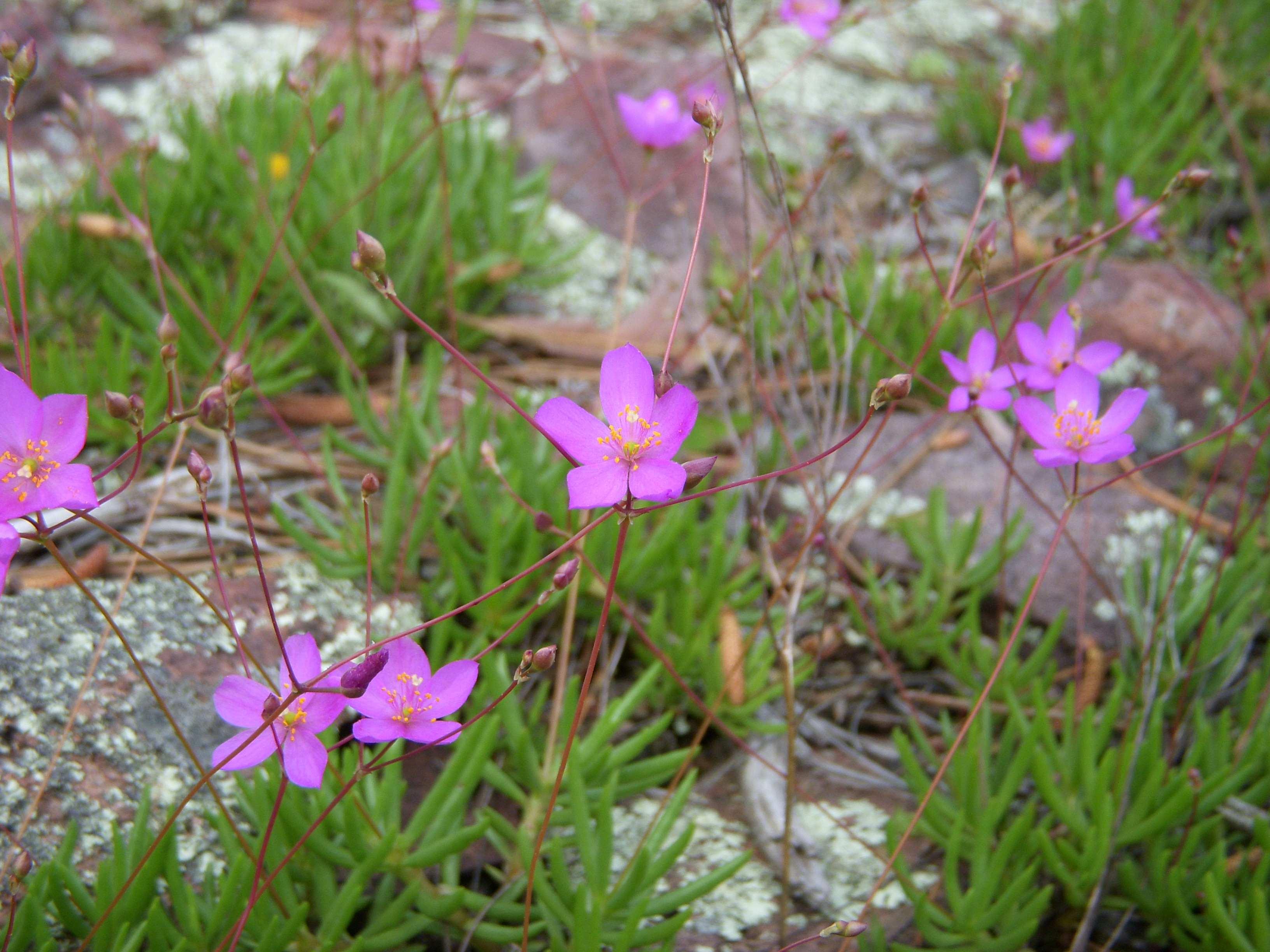 Talinum calycinum (Largeflower, Fameflower) Carter co MO May 2009.